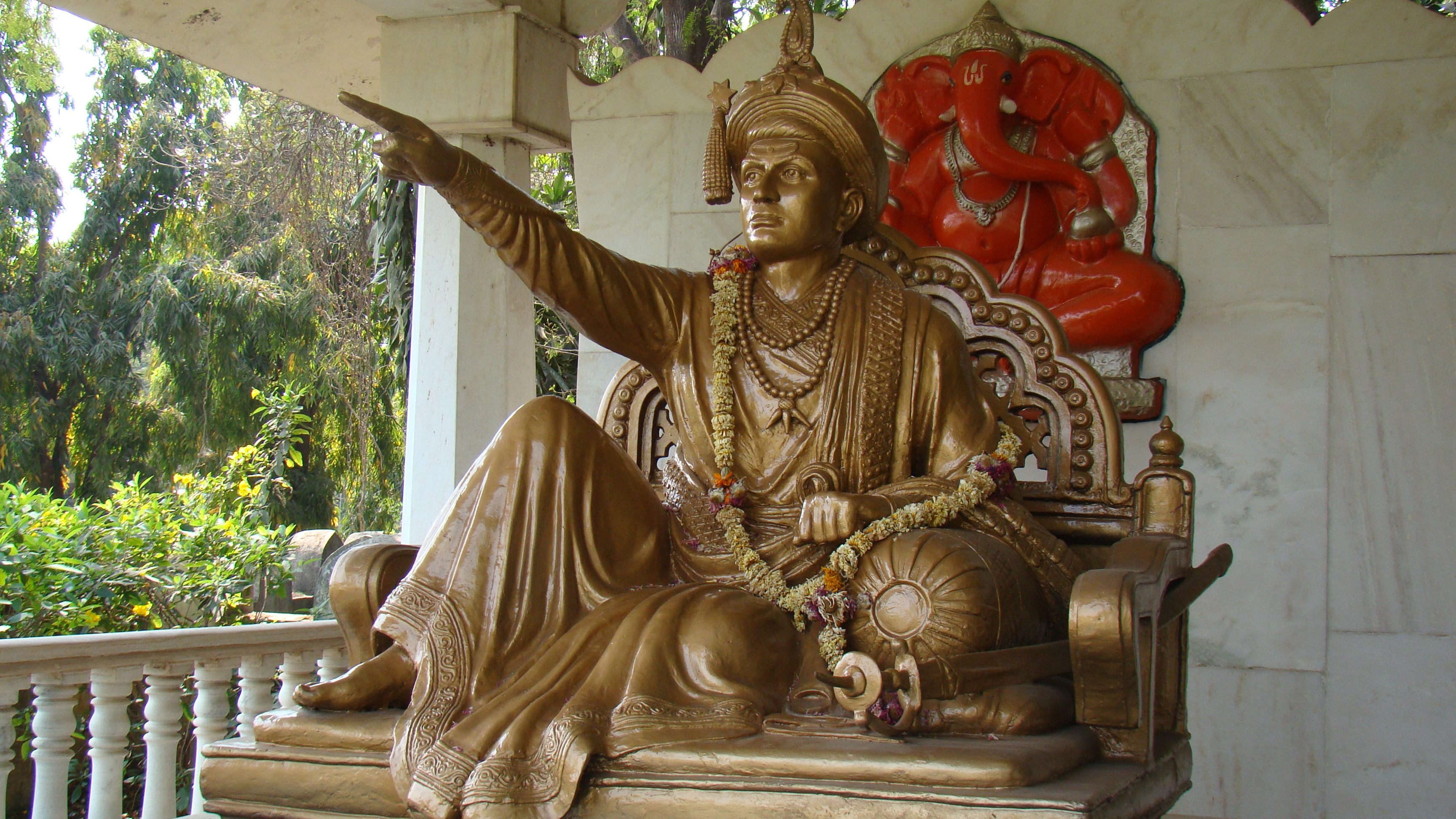 Statue_of_Madhavrao